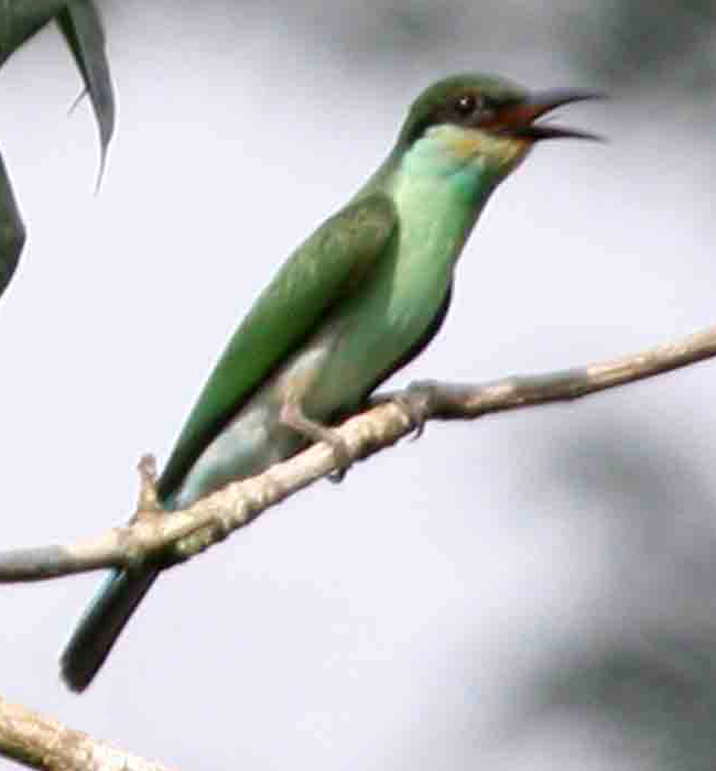 Blue-throated Bee-eater